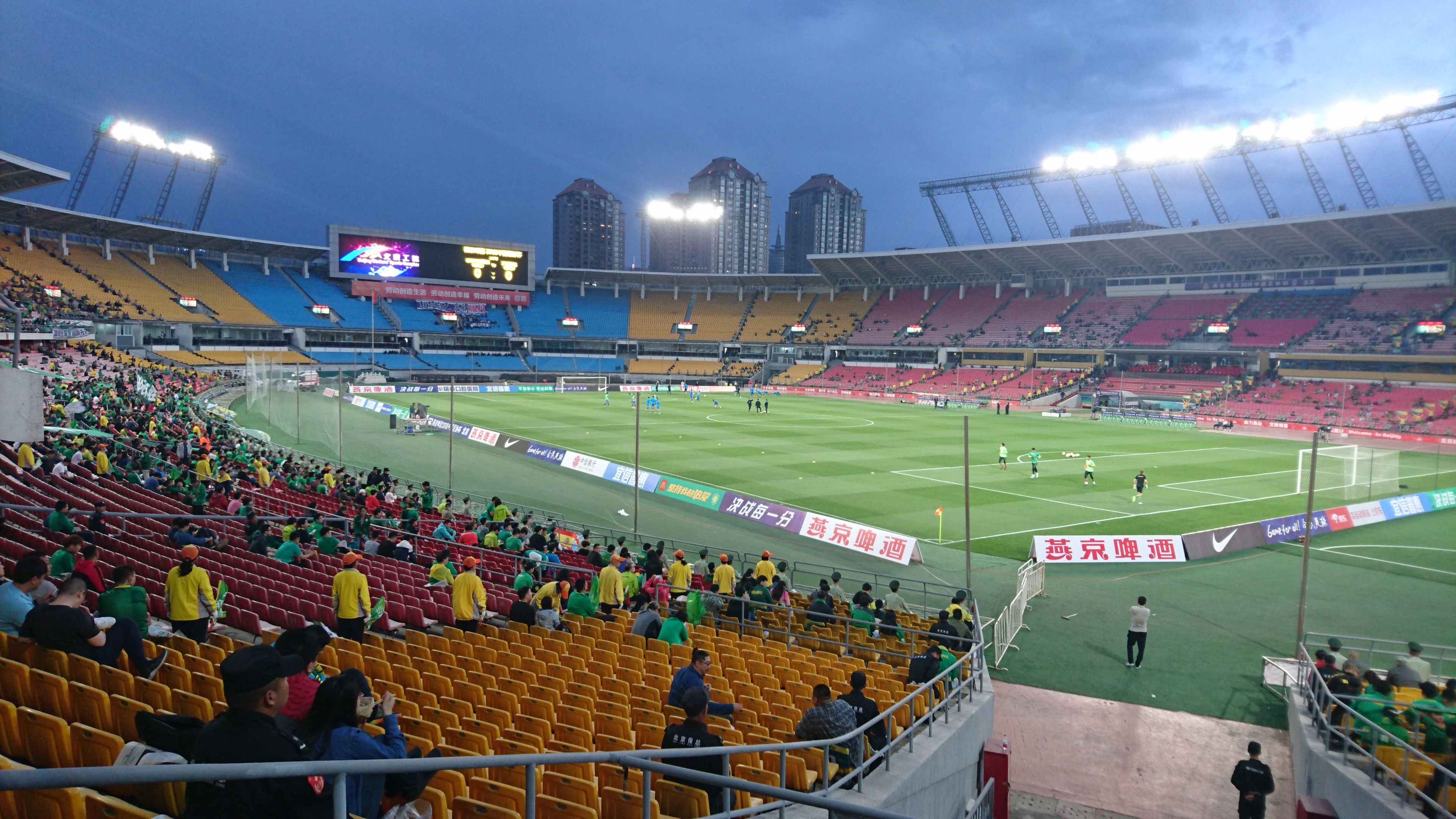 Workers Stadium in 2018